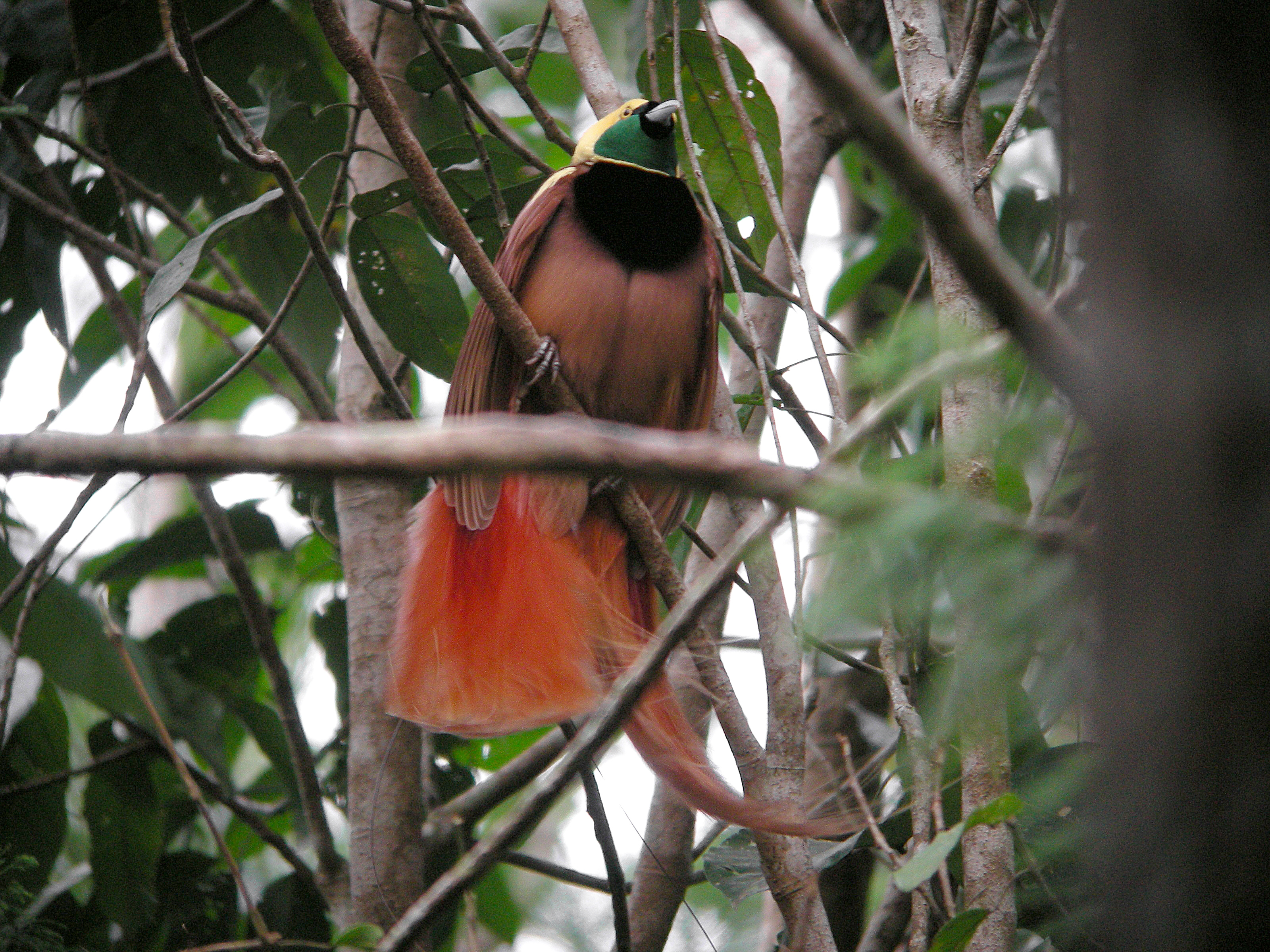 A male Raggiana Bird-of-Paradise in Papua New Guinea.